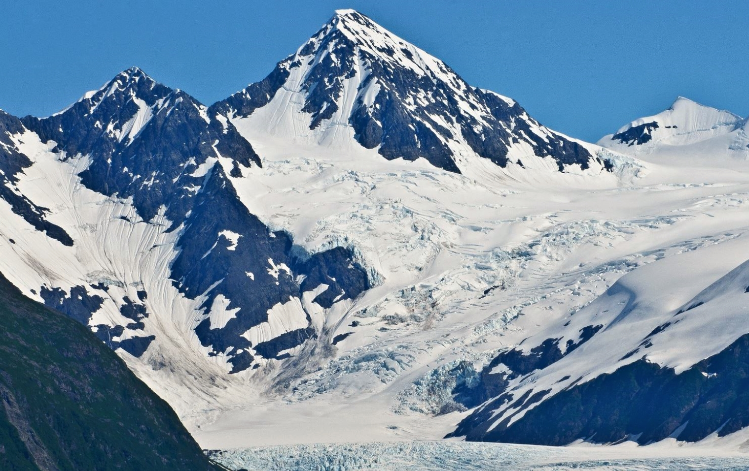 Aerial of Passage Peak from the city of Whittier, Chugach National Forest, Alaska.